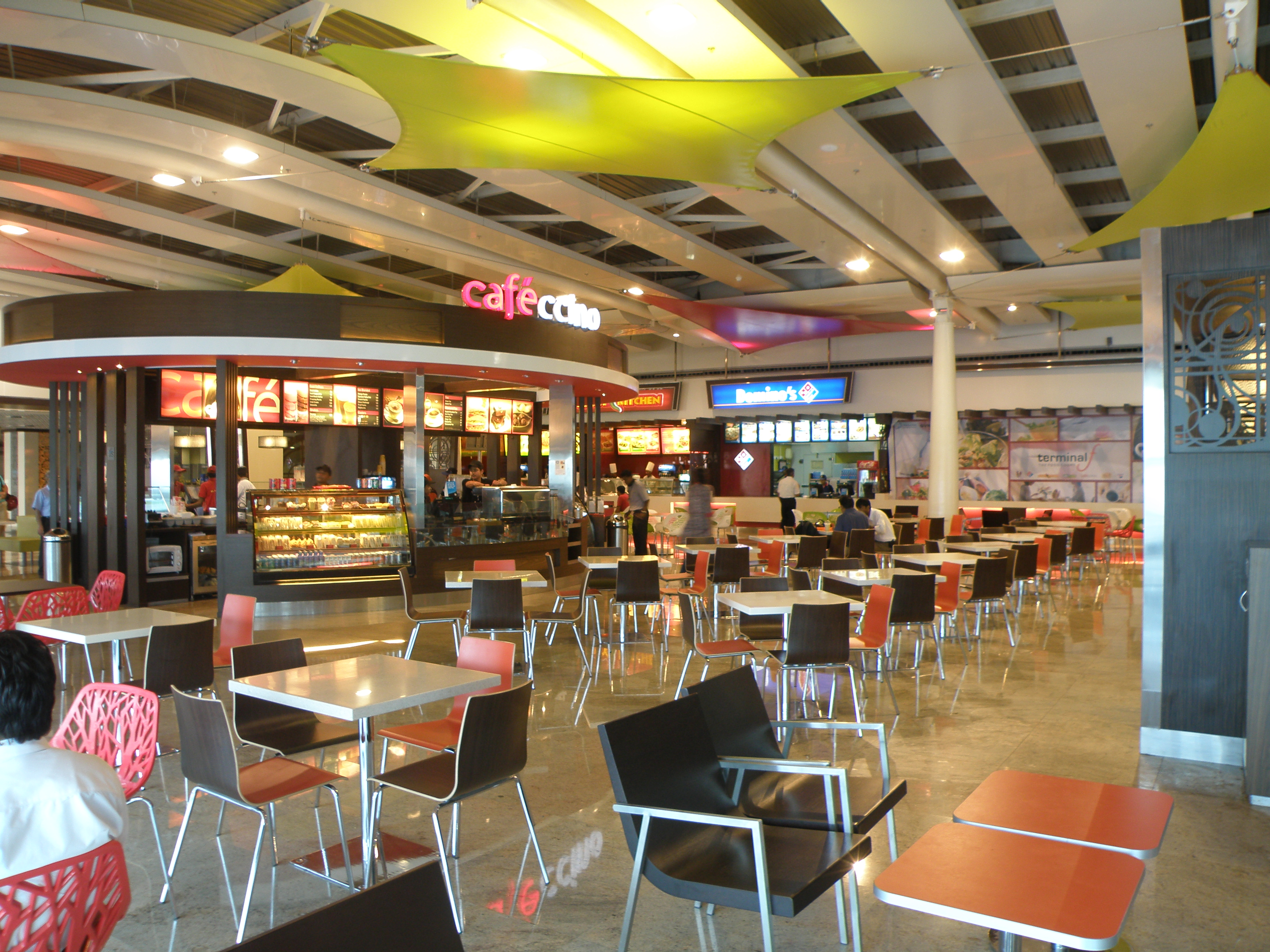 Terminal food court between terminals 1A and 1C at Chhatrapati Shivaji International Airport